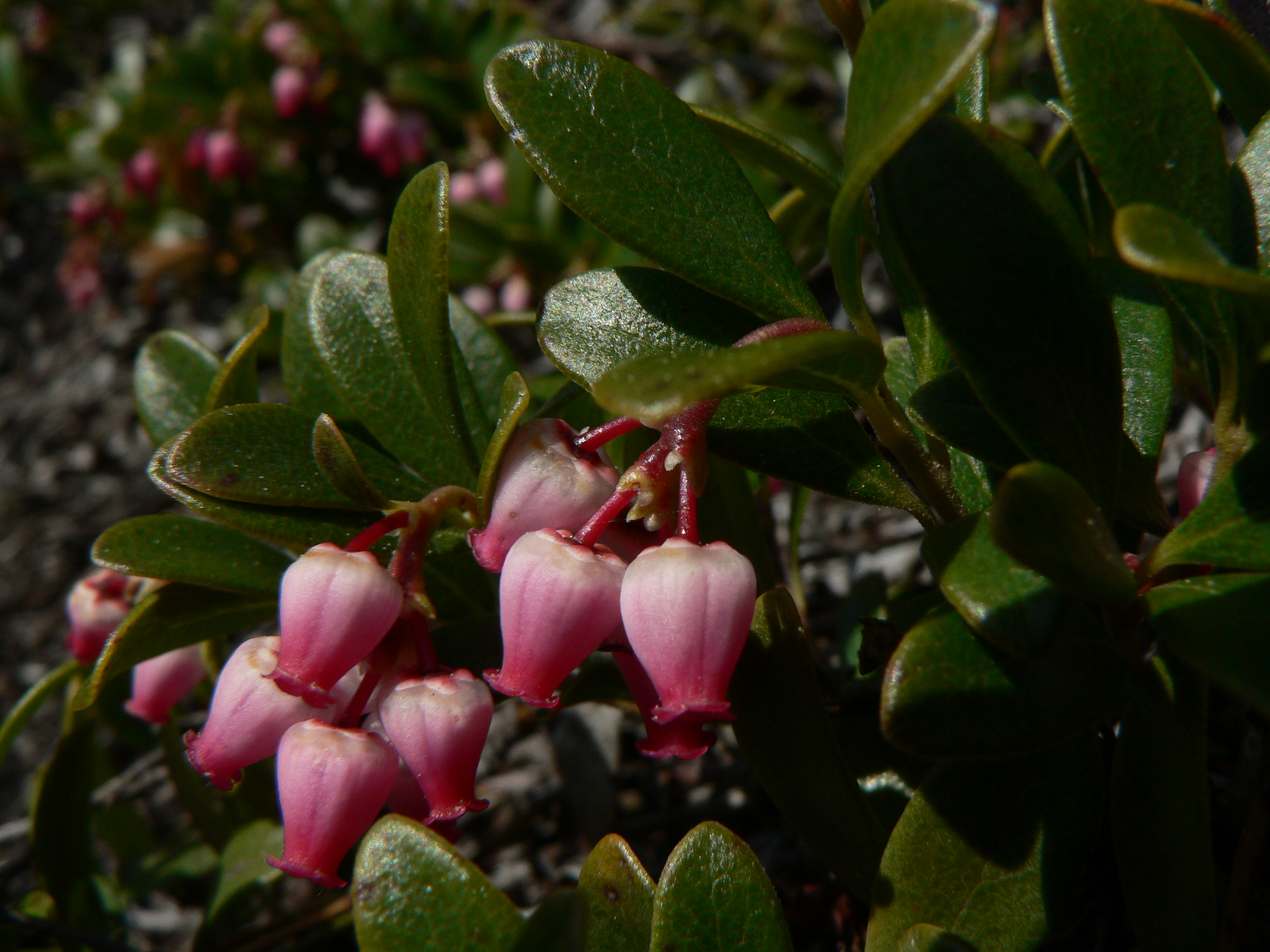 Kinnikinnick